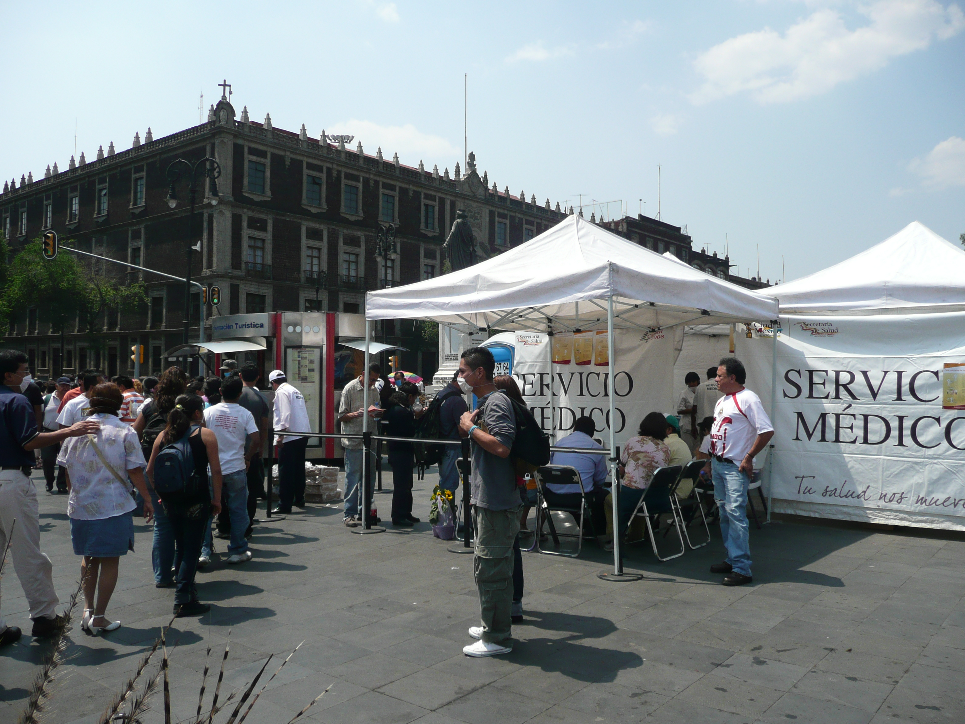 Mobile medical centre distributing information about the flu, face masks and bottles of water beside the Catedral Metropólitana.